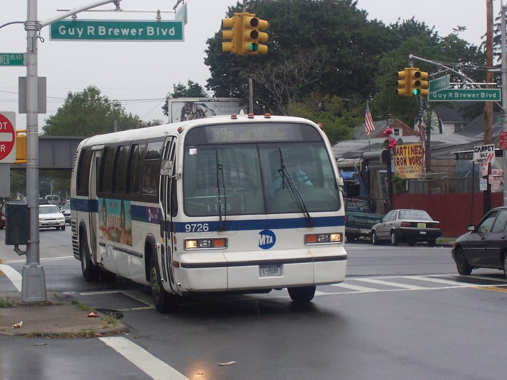 MTA Bus Company RTS #9726 in South Jamaica, NY, on the Q9A line.